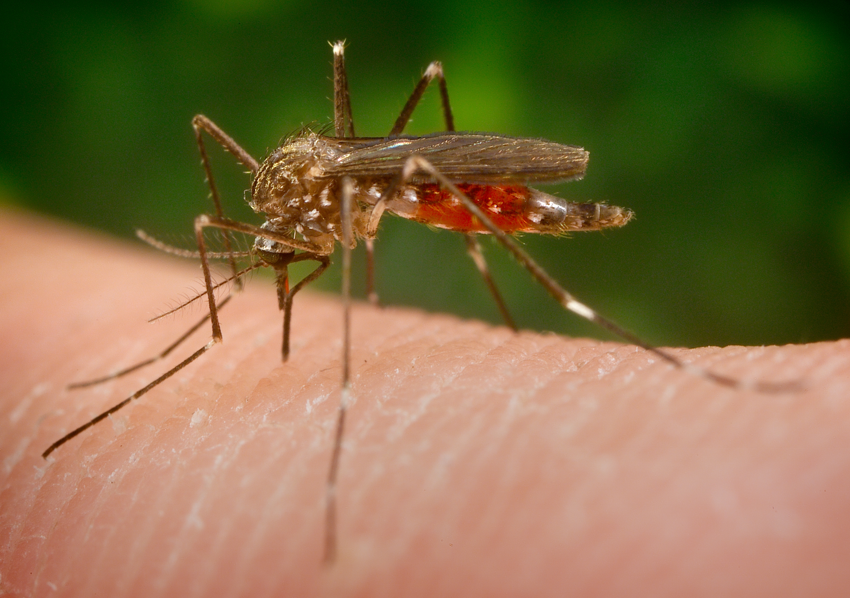 Original description from CDC: This mosquito, known as Aedes japonicus (also called Ochlerotatus japonicus), is a specimen of the Notre Dame colony. This Asian mosquito was first collected in the United States in New York and New Jersey in 1998. The Aedes japonicus Notre Dame colony was established from specimens collected as larvae in water filled containers (flower pots and tires) in residential areas of South Bend, Indiana in the summer of 2005. This mosquito is suspected of being a vector of the Japanese Encephalitis virus in Asia and the West Nile in the United States. While Aedes japonicus has not been incriminated as a major vector of West Nile virus in the United States, it is nevertheless of concern to public health agencies because of its fairly rapid colonization of a large part of the north eastern and midwestern United States and its propensity to lay eggs in flooded containers found around human dwellings.